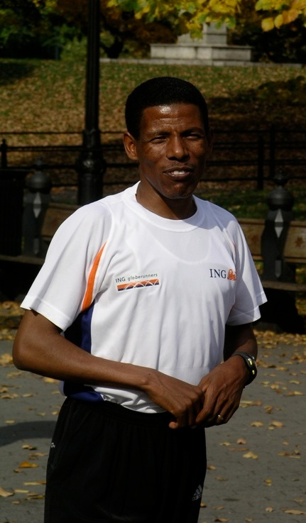 On the weekend of the 2003 New York City Marathon, I bumped into Haile Gebrselassie speaking to a crowd of runners in orange while walking through Central Park. Haile mentioned, in announcing that he's running a half-marathon in New York this August, that he'd been to NYC before, but not to race.